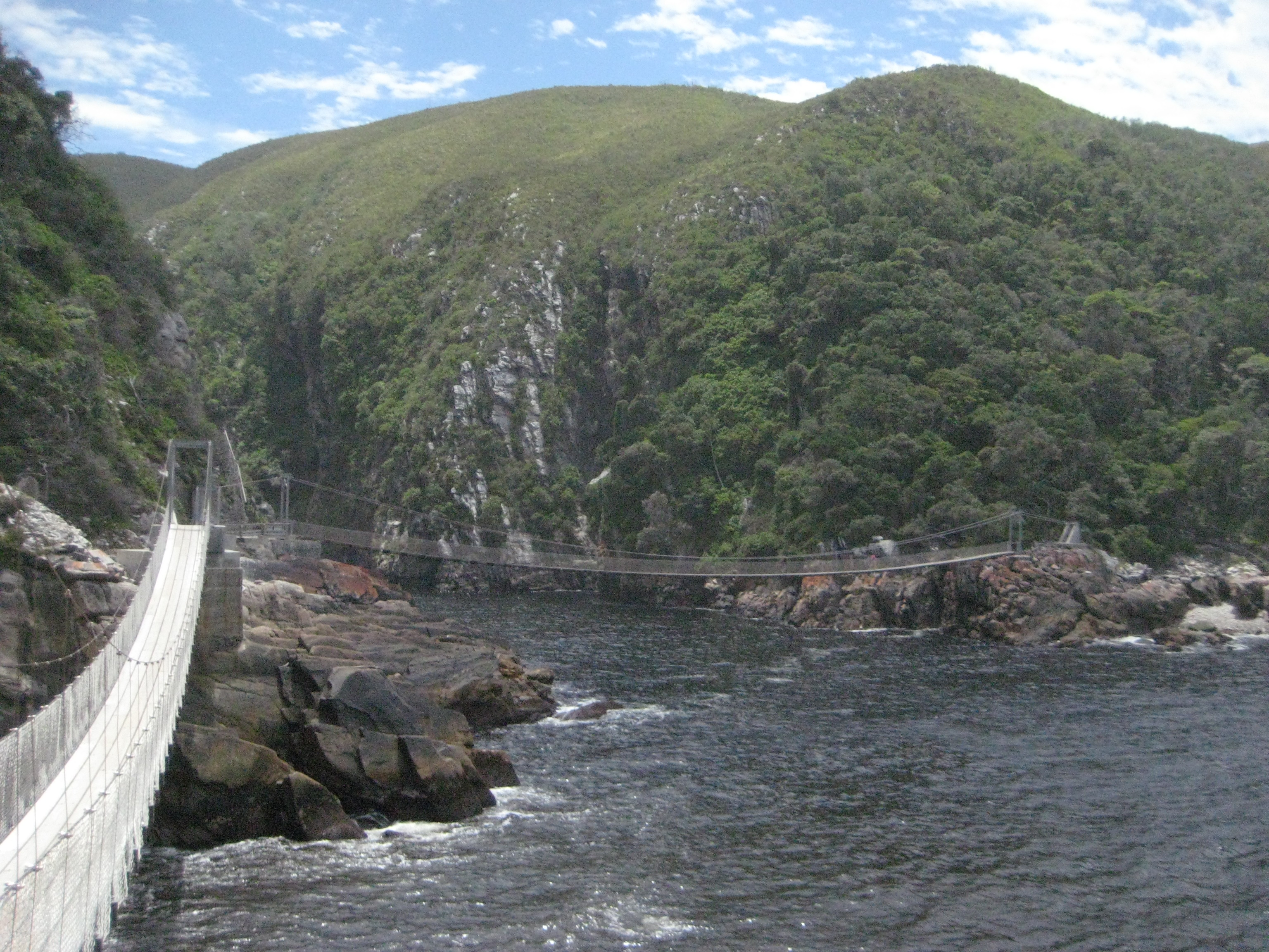 The suspension bridge at the Storms River mouth in Tsitsikamma National Park, taken in Dezember 2013.